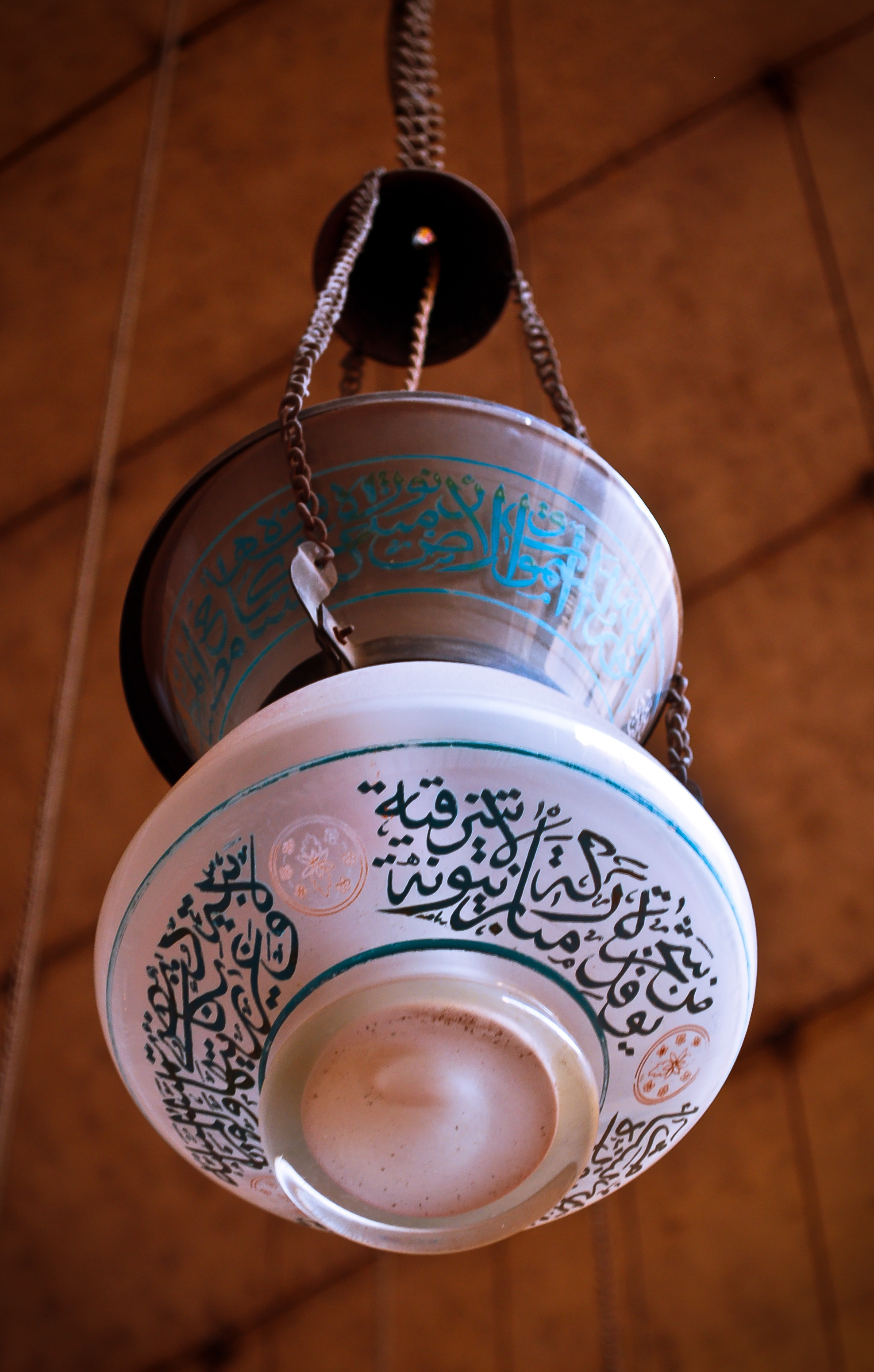 Mosque-Madrassa of Sultan Hassan Photo taken by : Mohammed Ali Moussa The Mosque-Madrassa of Sultan Hassan is a massive Mamluk era mosque and madrassa located near the Citadel in Cairo. Its construction began 757 AH/1356 CE with work ending three years later "without even a single day of idleness"